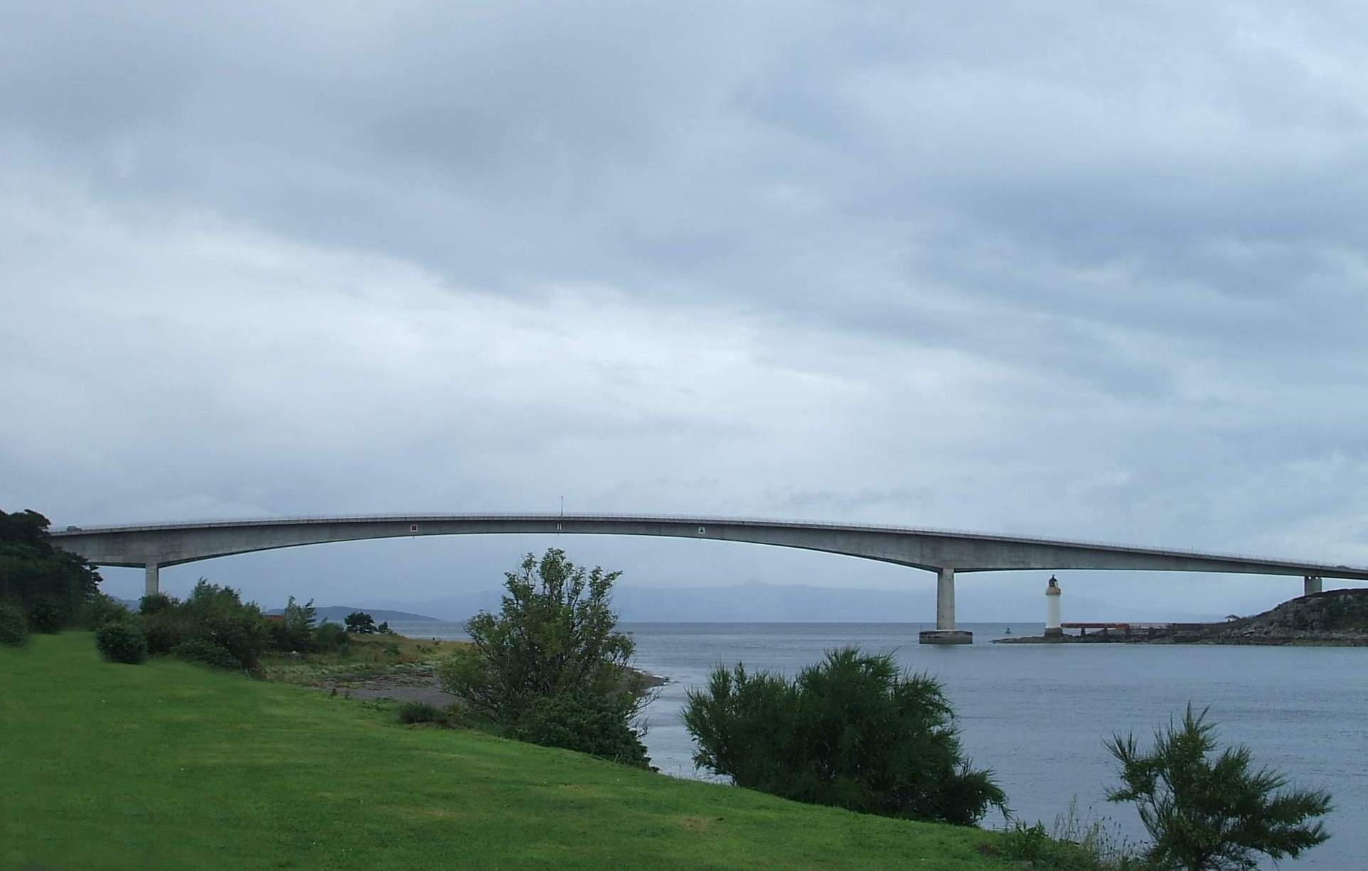 The road bridge linking Wester Ross with the Isle of Skye, seen here from the shore at Kyleakin on Skye. The weather northwards is rather wet which is why the Cuillin Hills (actually mountains) can barely be seen due to the low clouds. see below for the rest of the bridge